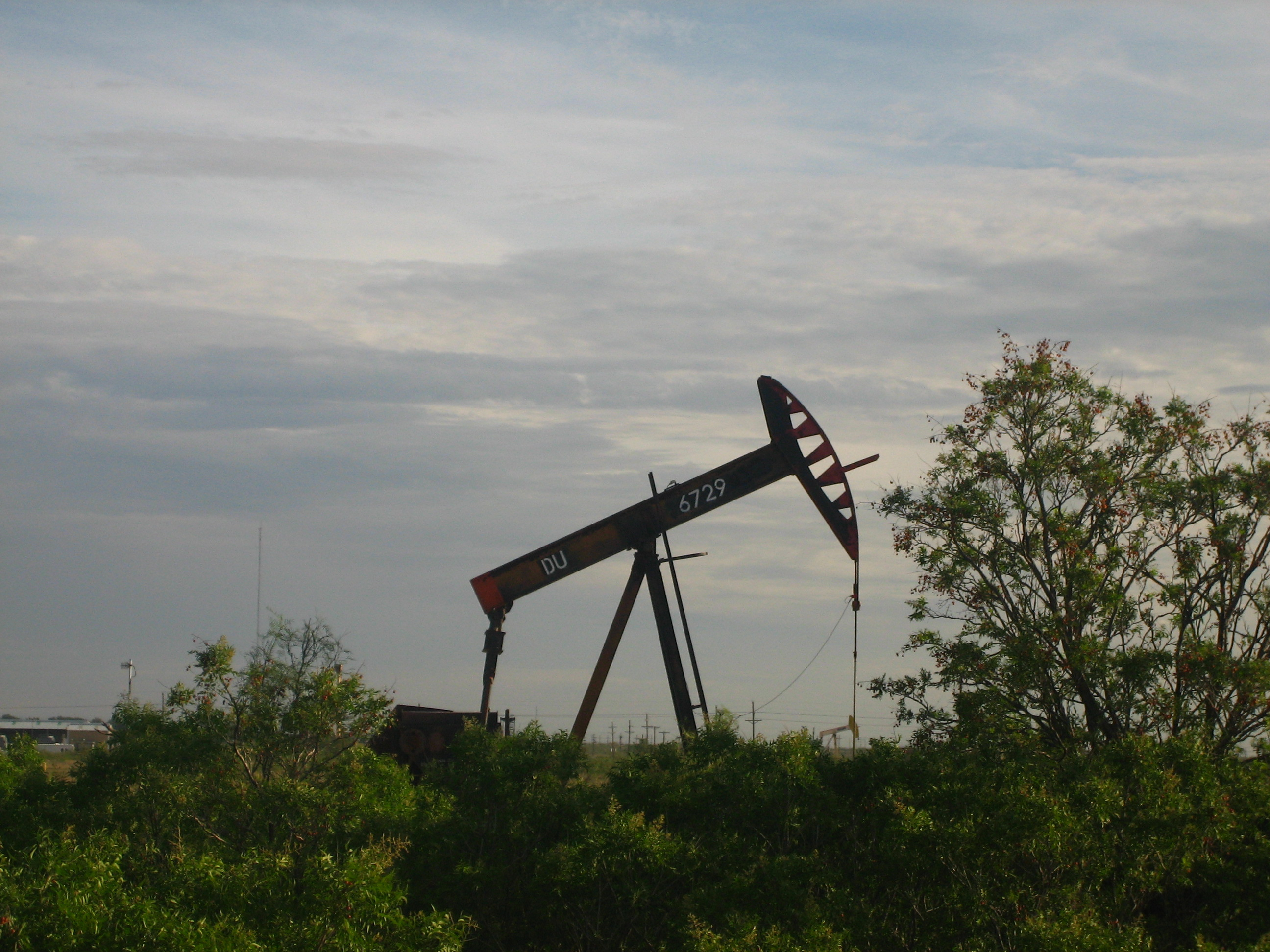 I took photo on July 11, 2008.Billy Hathorn (talk) 03:56, 22 July 2008 (UTC)